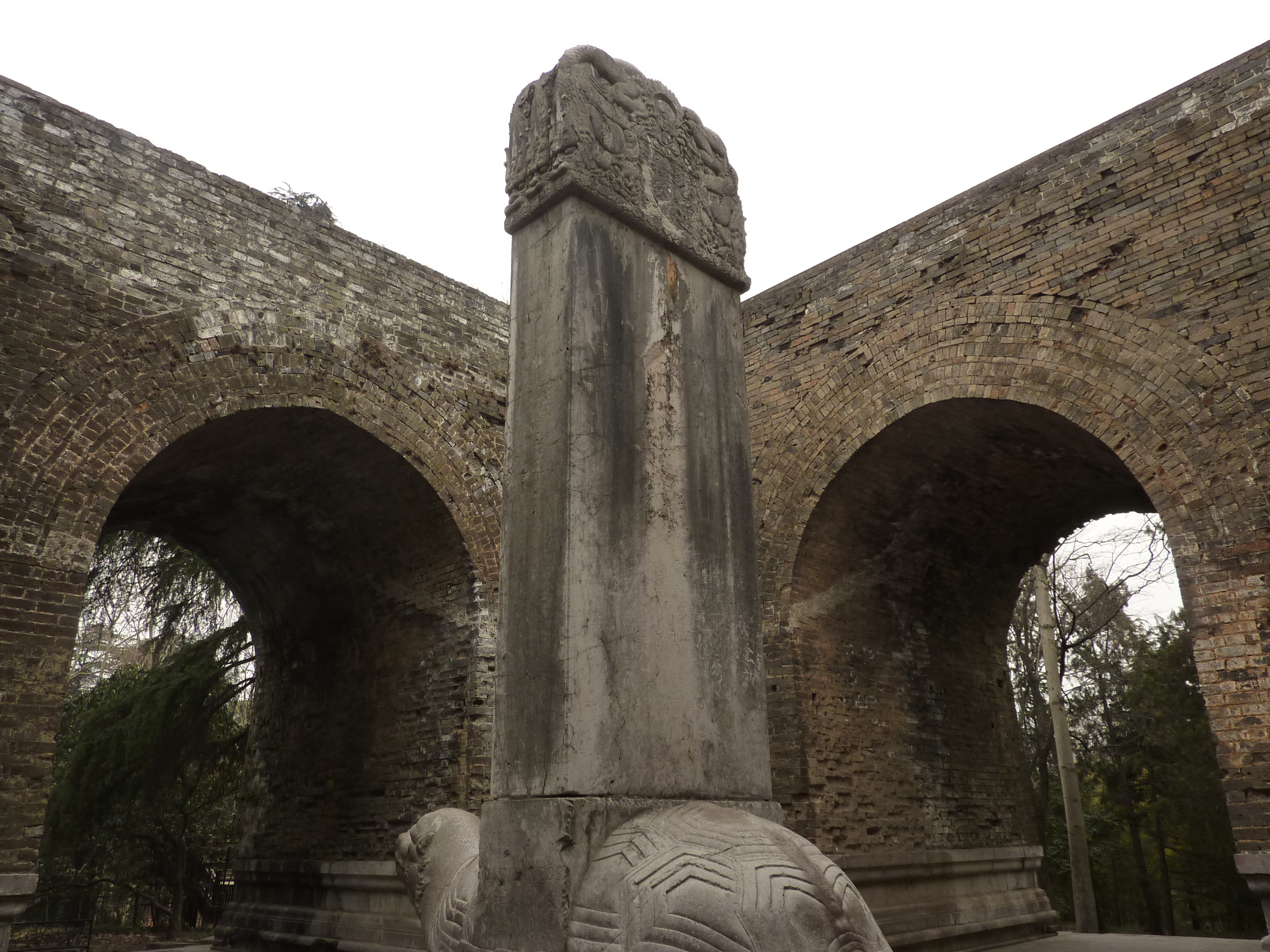 Inside the Sifangcheng Pavilion of Ming Xiaoling. The great bixi tortoise, holding the Shendong Shengde stele honoring of the Hongwu Emperor. Some of the photos are taken from the same point, and are meant to be assembled into a wider-angle ("panoramic") picture with a tool like hugin.